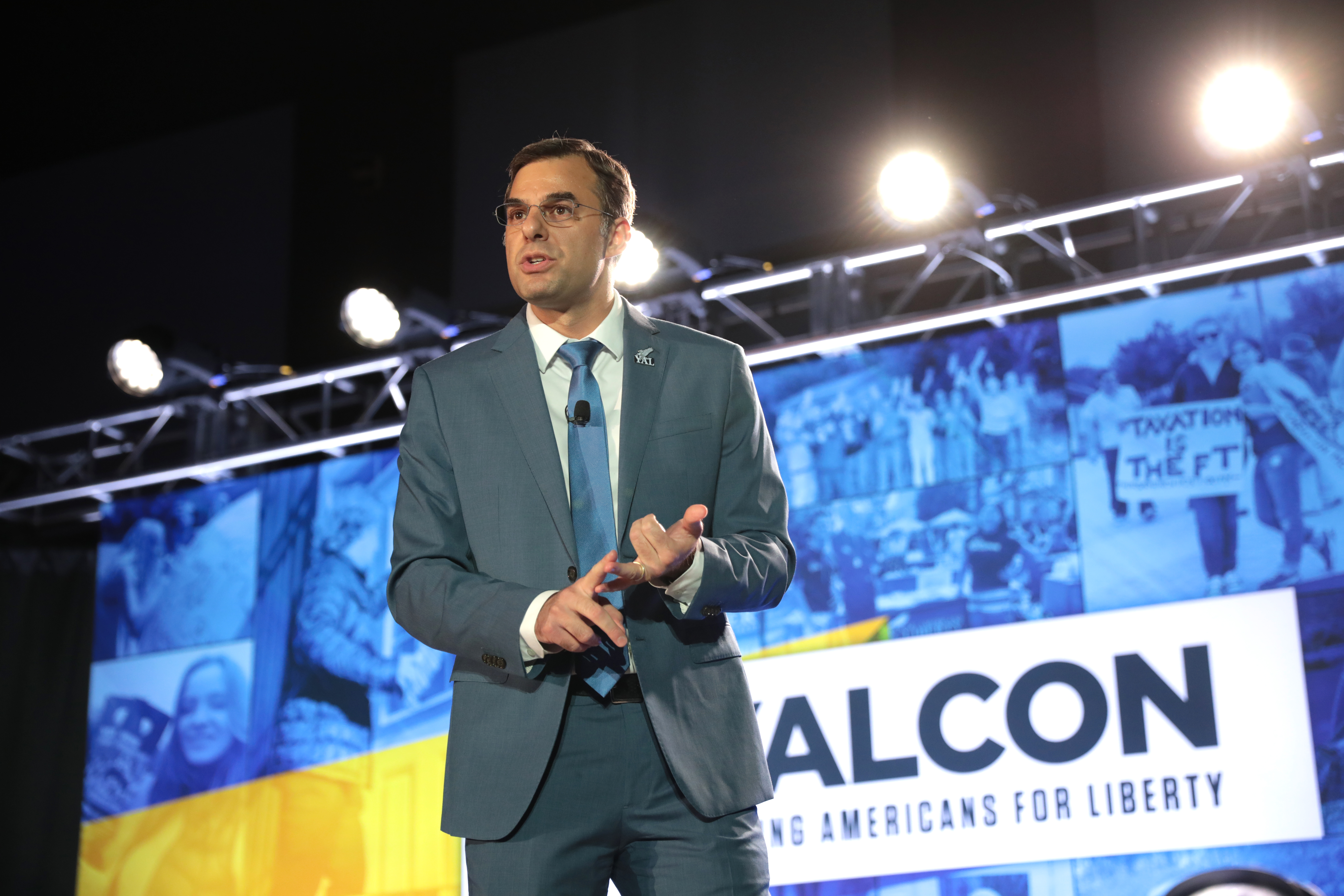 U.S. Congressman Justin Amash speaking with attendees at the 2019 Young Americans for Liberty Convention at the Best Western Premier Detroit Southfield Hotel in Detroit, Michigan.